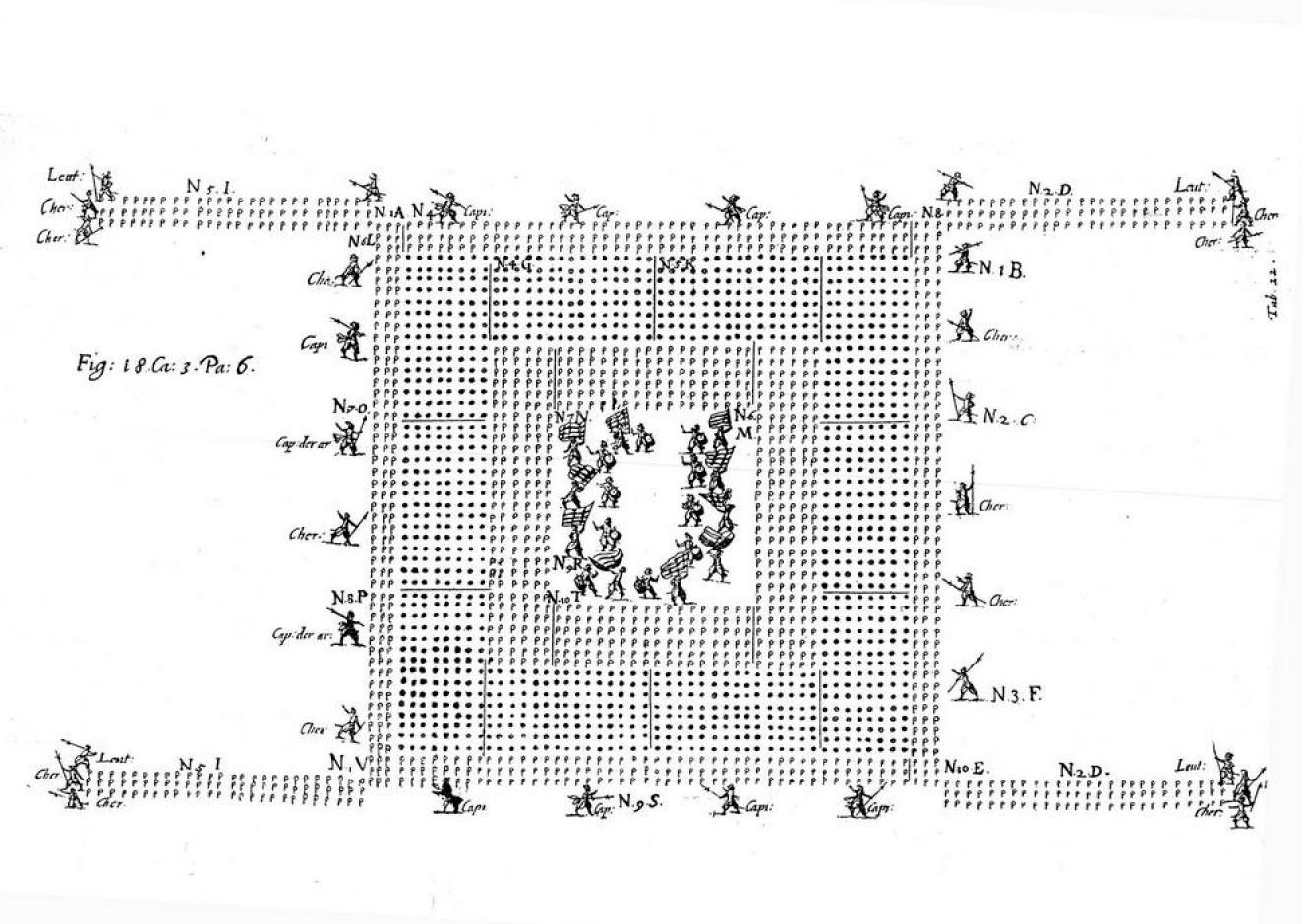 Combat disposition of an infantry regiment in the pike square (German: Gevierthaufen or Gewalthaufen, meaning crowd of force), anno 1647.